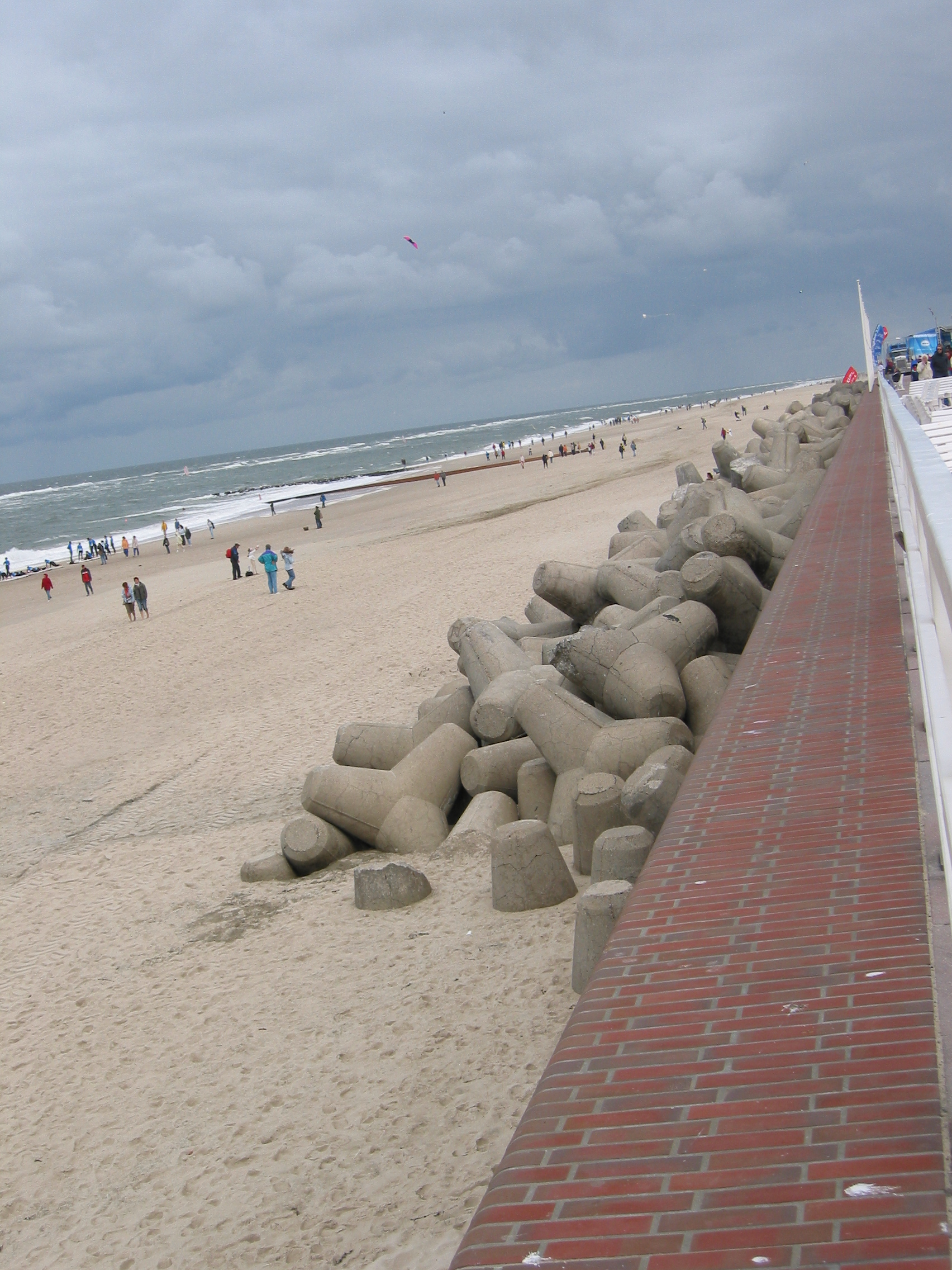 Concrete tetrapods (Westerland)